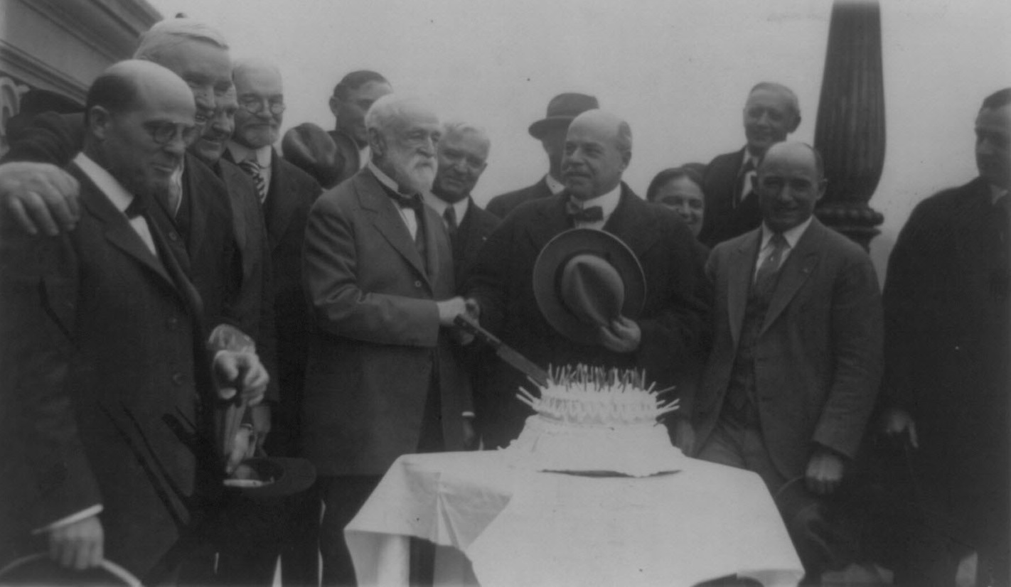 Congressional cake with 85 candles being presented to Rep. Charles Manly Stedman of North Carolina on his 85th birthday by colleagues in the House. Speaker Nicholas Longworth is making the presentation.